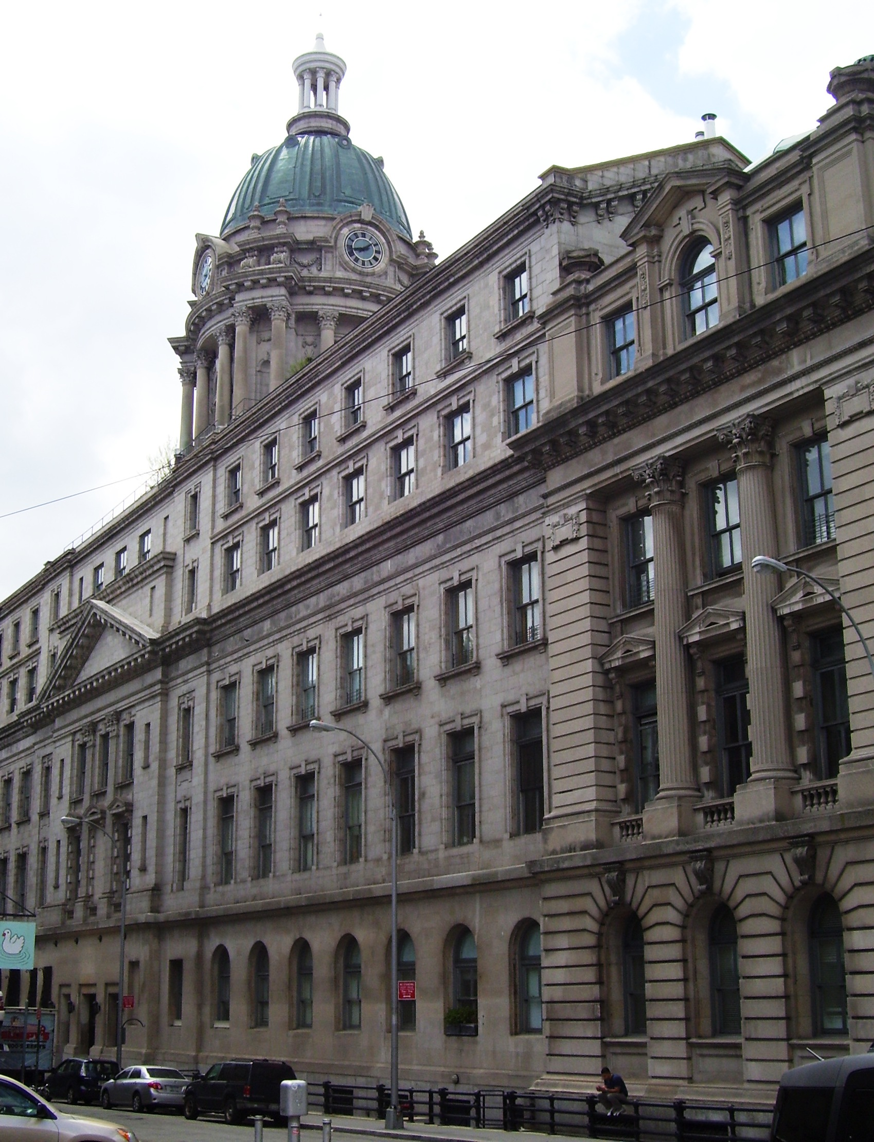 240 Centre Street between Grand and Broome Streets in the NoLita neighborhood of Manhattan, New York City, was built in 1905-1909 and designed by Hoppin & Koen as the headquarters of the New York City Police Department, which occupied it from 1909-1972. In 1988 it was converted to condominiums by the Ehrenkranz Group & Eckstut, and is now known as the Police Building Apartments. (Sources: 'AIA Guide to NYC (4th ed.) and Guide to NYC Landmarks (4th ed.))